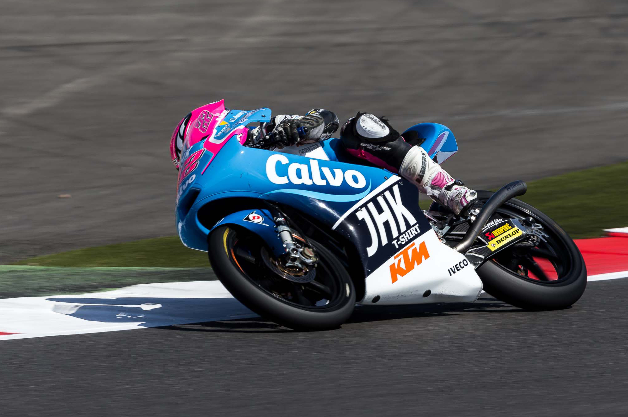 Spanish motorcycle racer Ana Carrasco practicing at the Silverstone Circuit on a Moto3 KTM - 31st August 2013